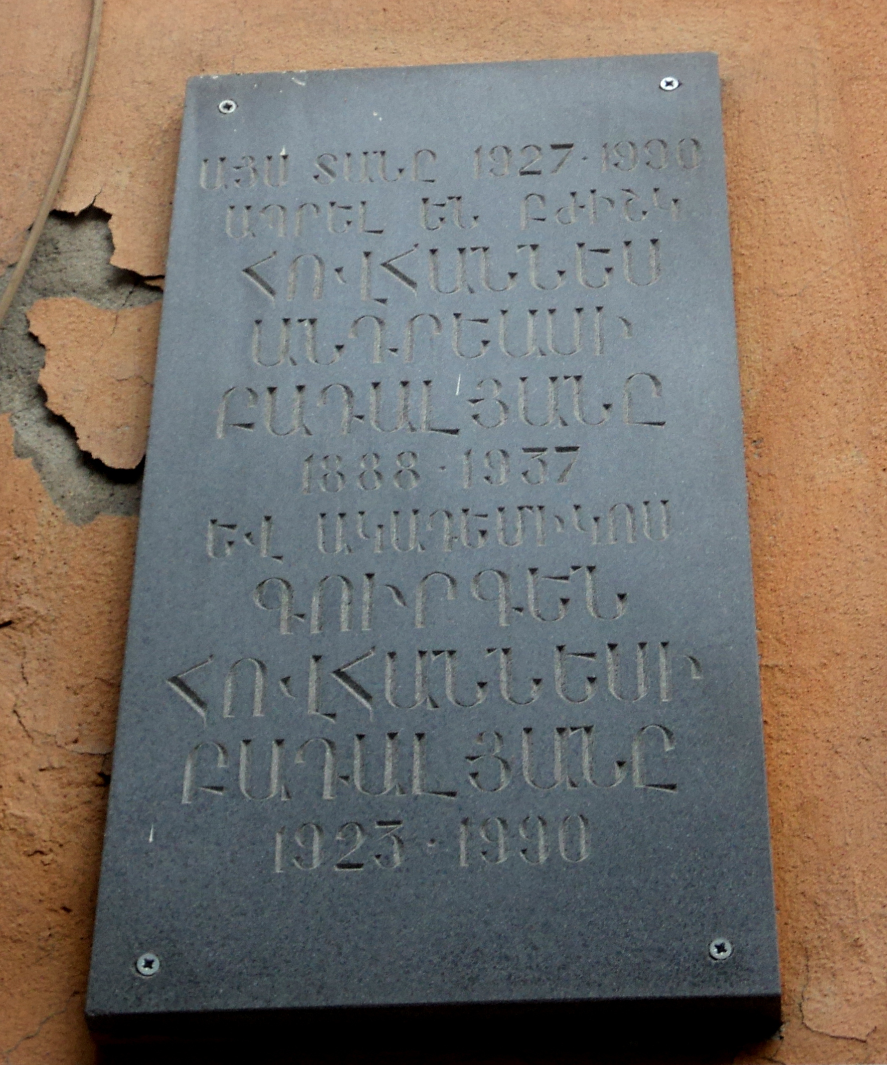 Gurgen Badalyan's plaque